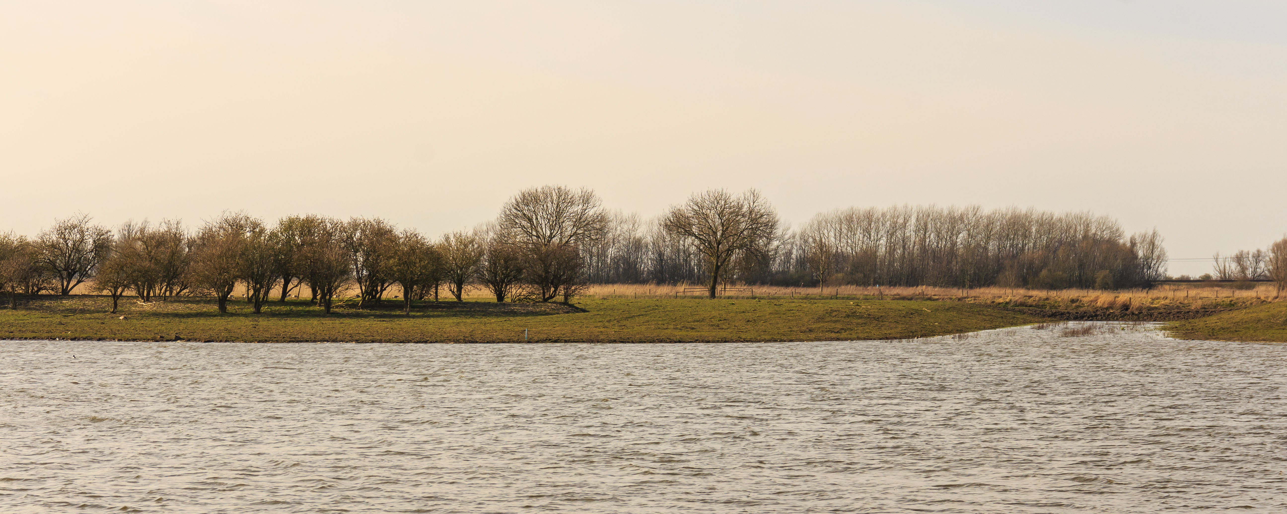 View from Bird observation De Krakeend. Location, Oostvaardersplassen in the Netherlands.